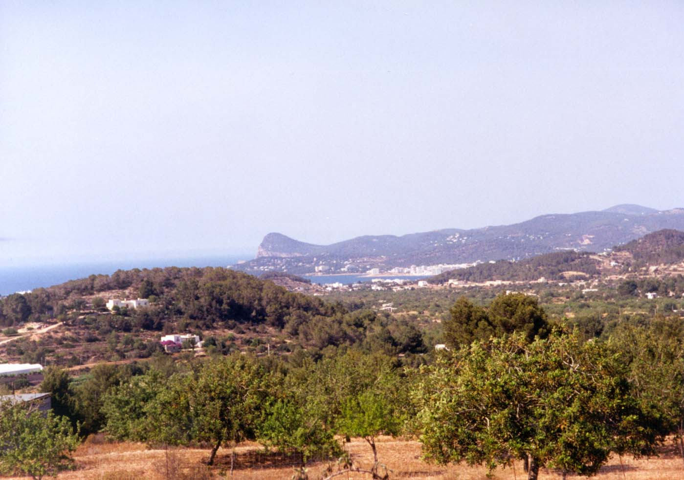 View of Sant Antoni, Eivissa from a distance